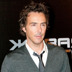 Shawn Levy at the Moscow press conference about the "Real Steel"